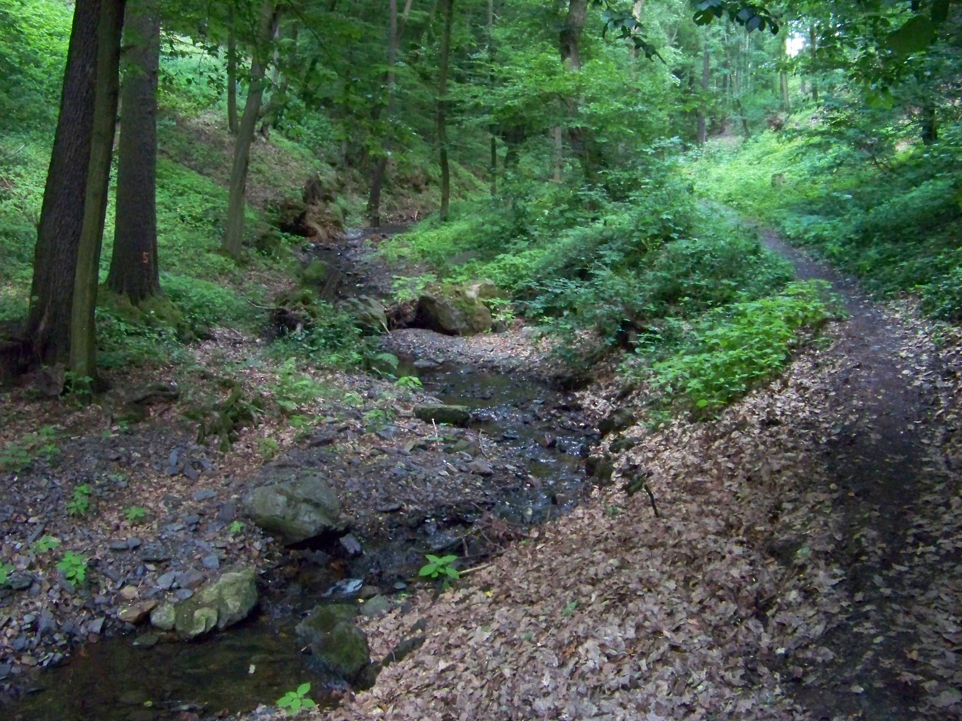 Dolní Břežany-Lhota, Prague-West District, Central Bohemian Region, the Czech Republic. Károv Valley, Károv Creek. - OpenStreetMap(Info)